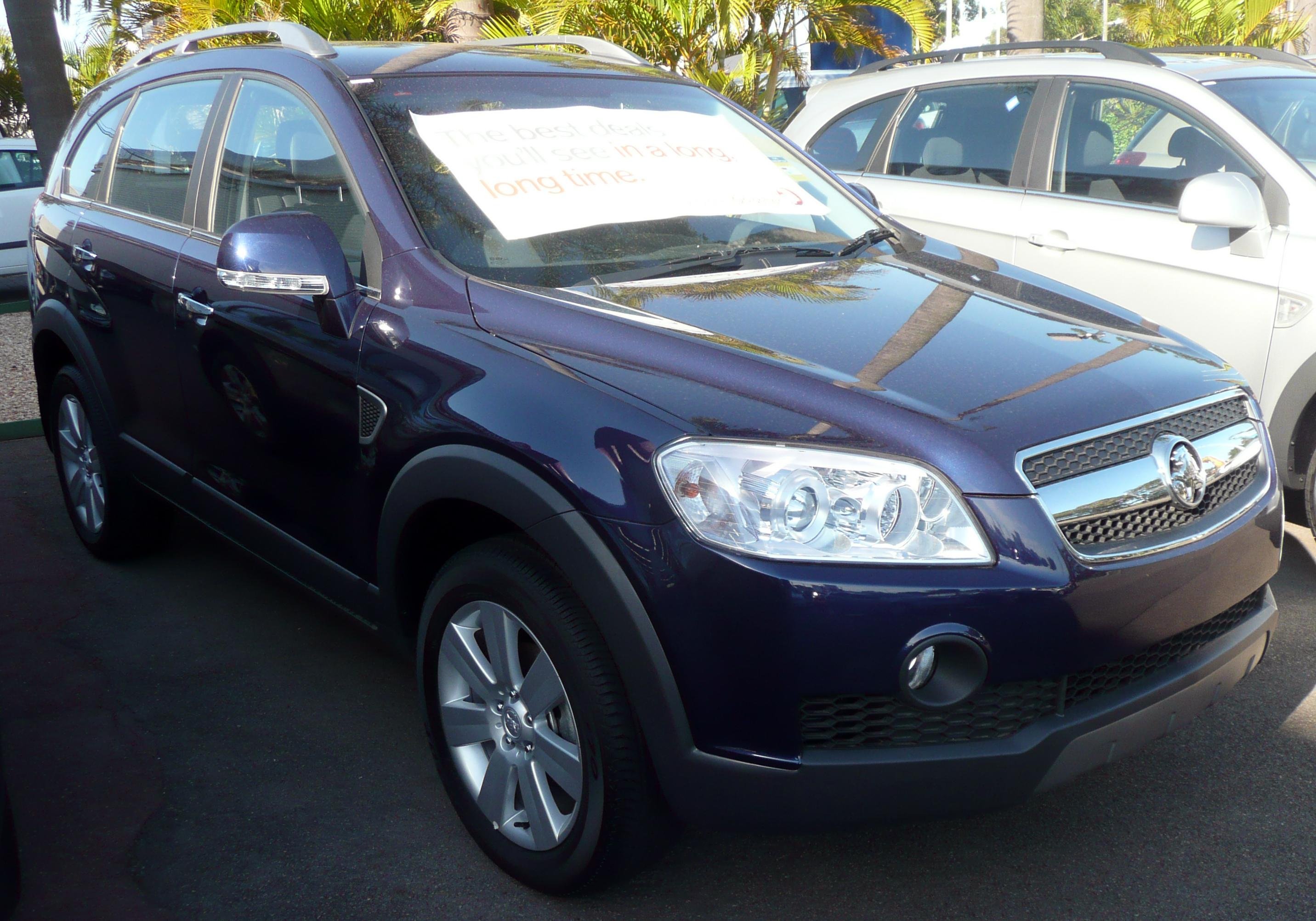 2008 Holden Captiva (CG MY09) LX AWD wagon. Photographed at McGrath Sutherland Holden, Kirrawee, New South Wales, Australia.